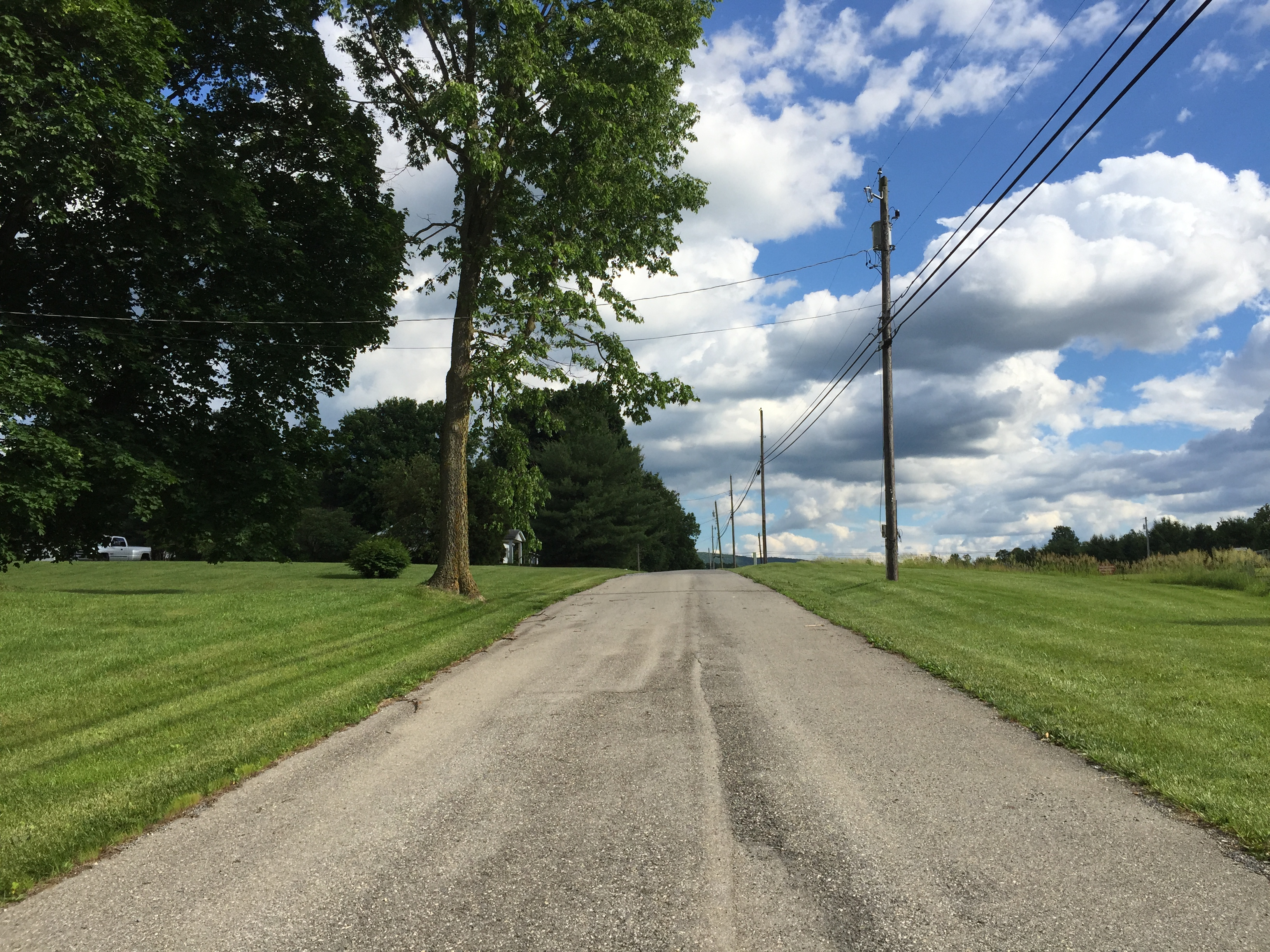 View south at the north end of Maryland State Route 847 (Fritz Lane) in northeastern Washington County, Maryland